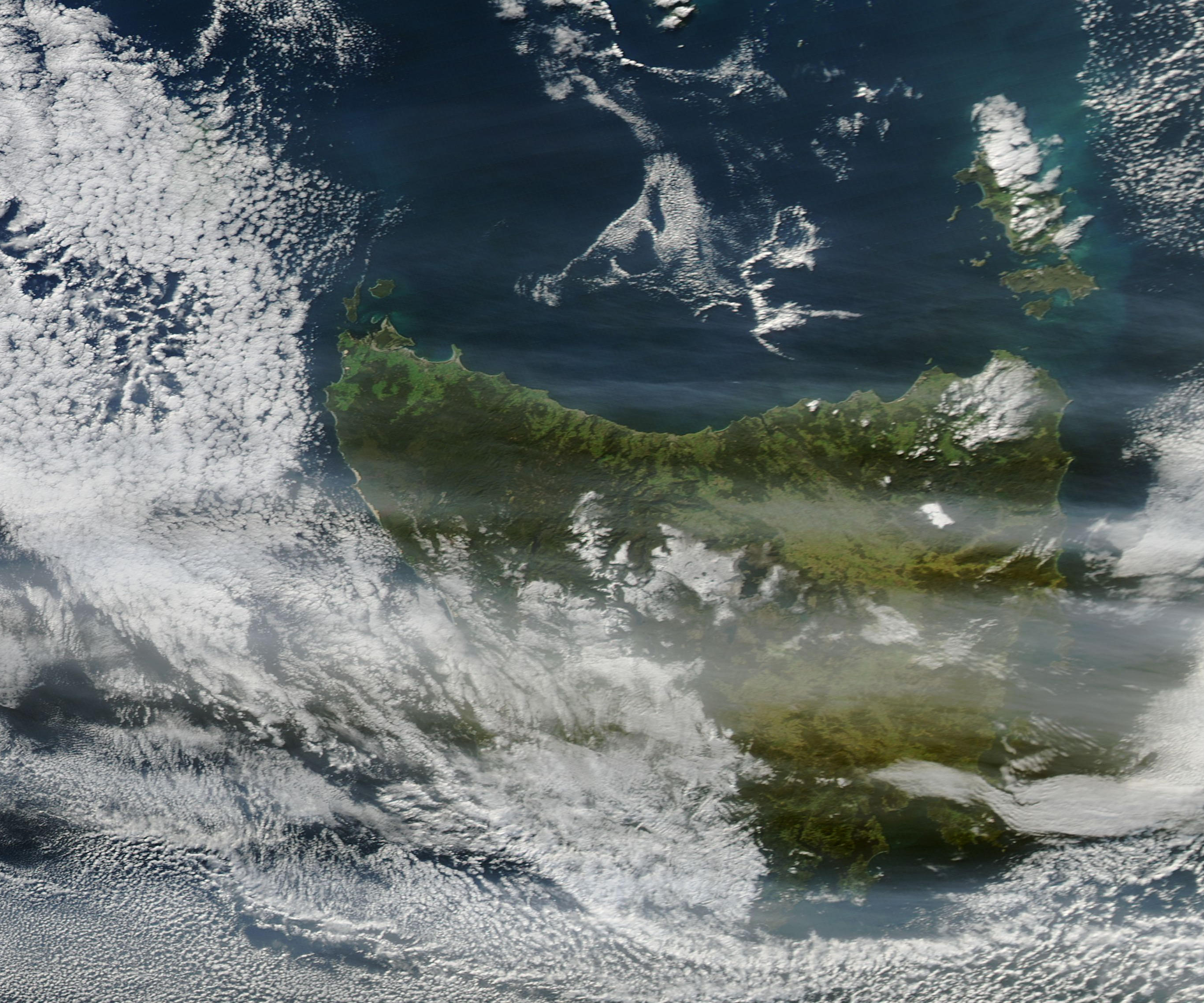 Ash cloud from the 2011 Puyehue eruption over the Australian state of Tasmania.